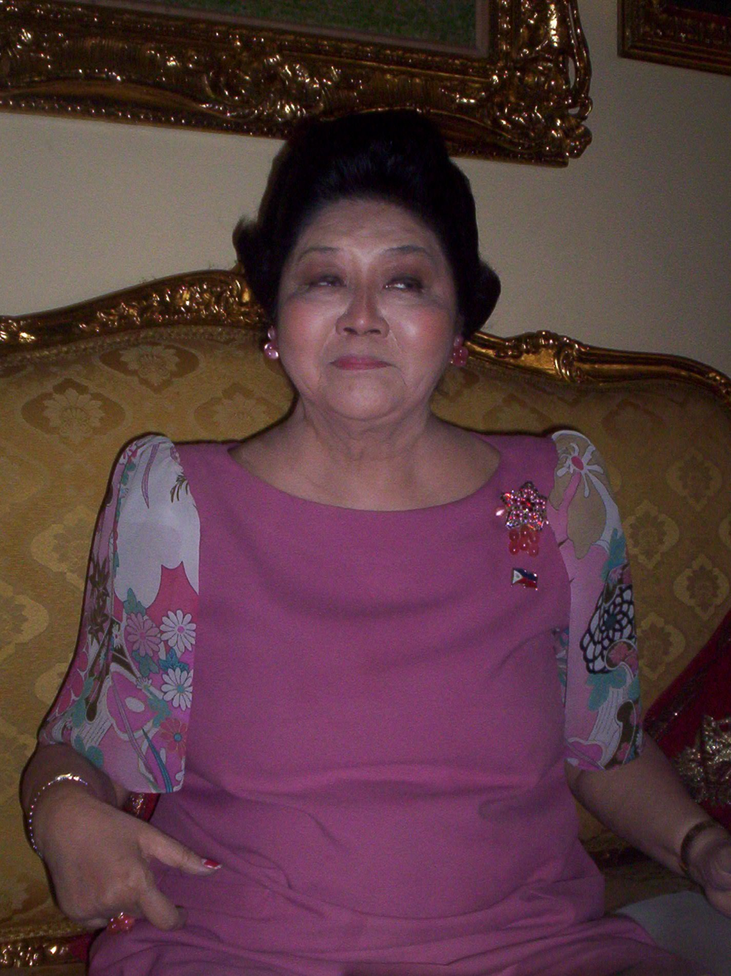 I took this photo while interviewing former First Lady Imelda Romualdez-Marcos at her residence in Makati on July 29, 2008.